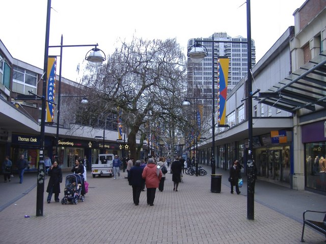 Canal Walk; The continuation of this pedestrian zone, to the east of Regent Street. There is a possibility that the old Wilts and Berks canal, through the centre of Swindon, could be reinstated, as part of the town centre redevelopment.